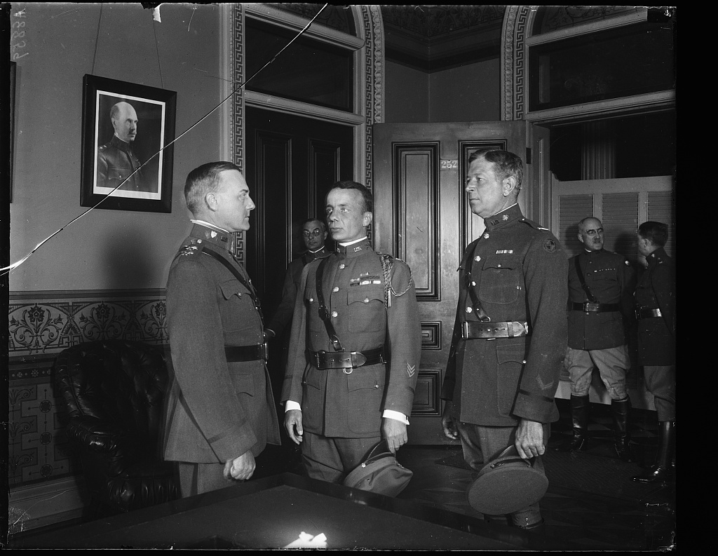 Teddy Roosevelt, Jr., center, Dwight Davis, right